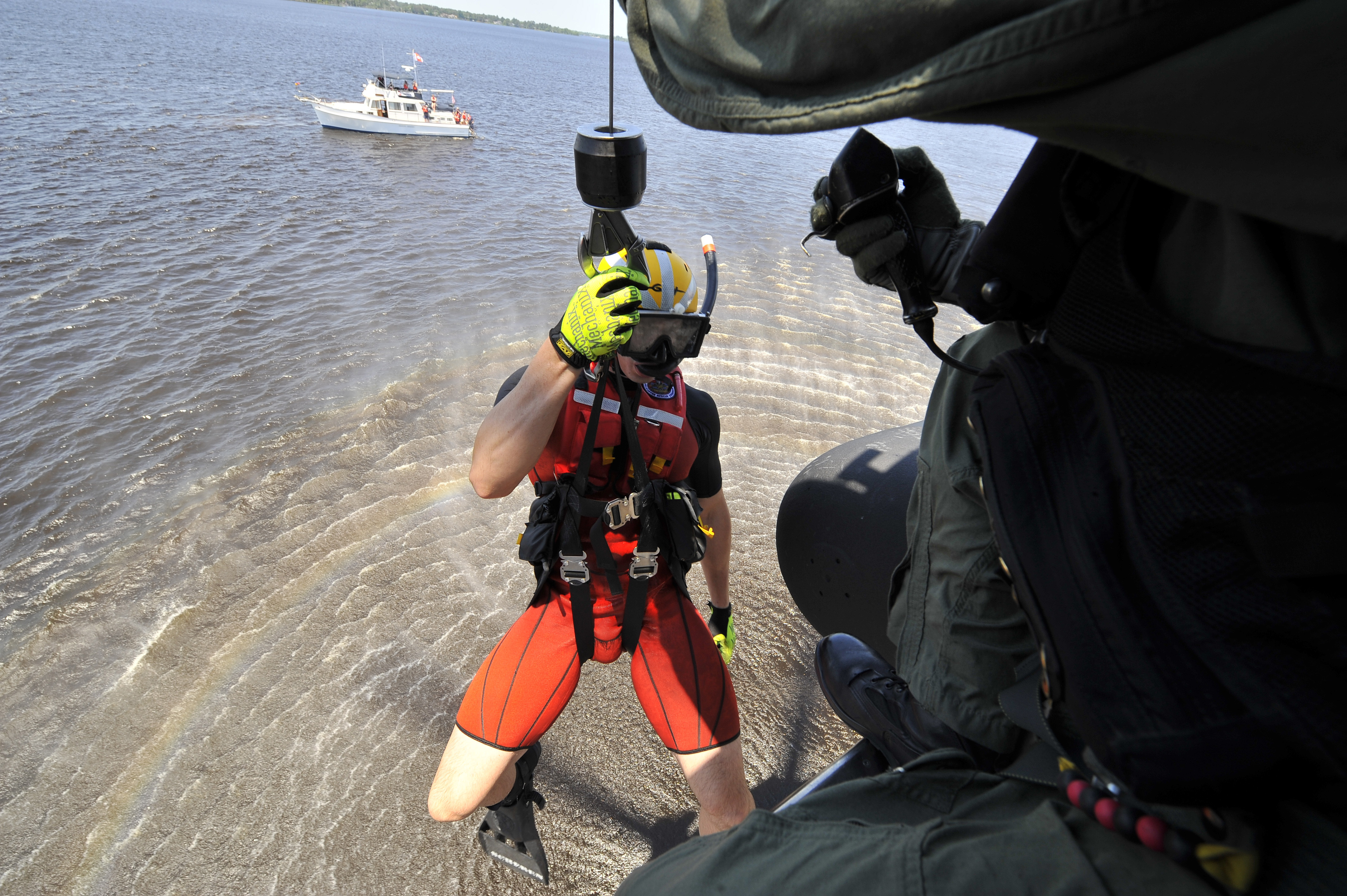 Petty Officer 3rd Class Steve Scheren, a rescue swimmer from Coast Guard Air Station Elizabeth City, N.C., is lowered from an MH-60 Jayhawk helicopter during hoist training in the Pasquotank River near Elizabeth City, Wednesday, May 29, 2013. Aviation personnel must complete hoist training evolutions on a regular basis to maintain their qualifications. (U.S. Coast Guard photo by Petty Officer 1st Class Brandyn Hill)